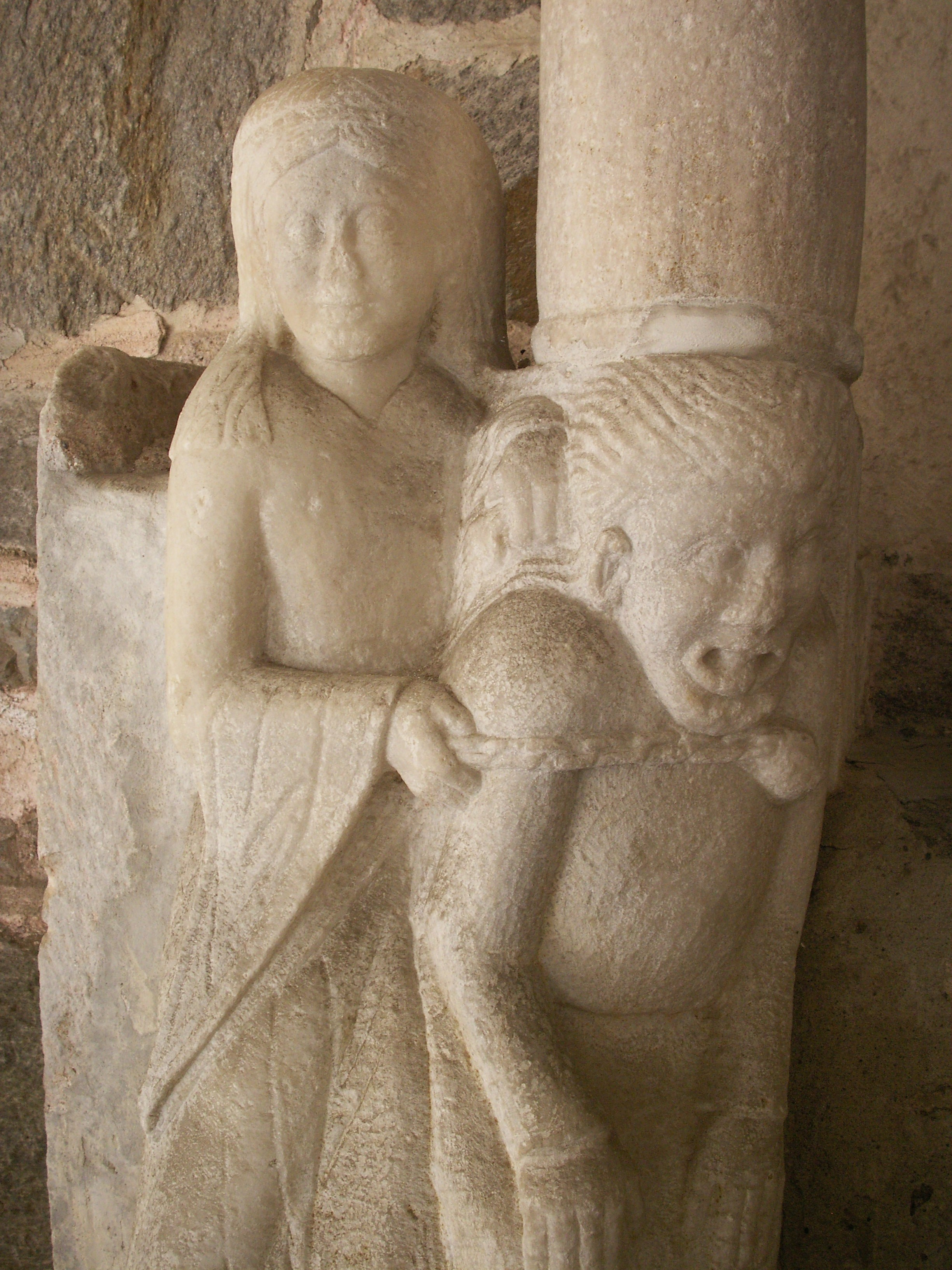 Detail of the romanesque cloister of Millstatt Abbey near Spittal an der Drau / Carinthia / Austria / EU.